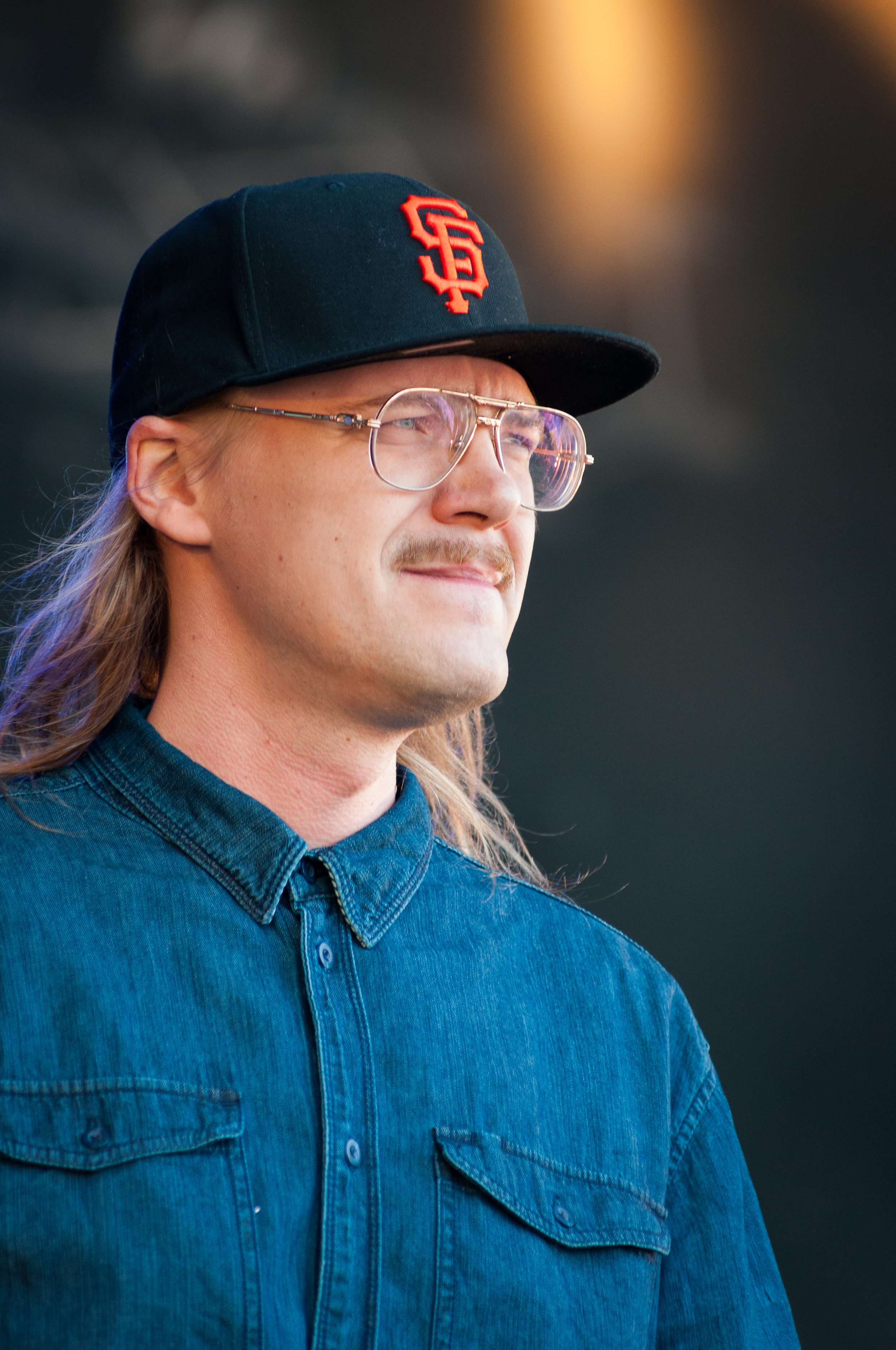 Finnish vocalist Stig performing at the 2012 Ilosaarirock festival in Joensuu, Finland.